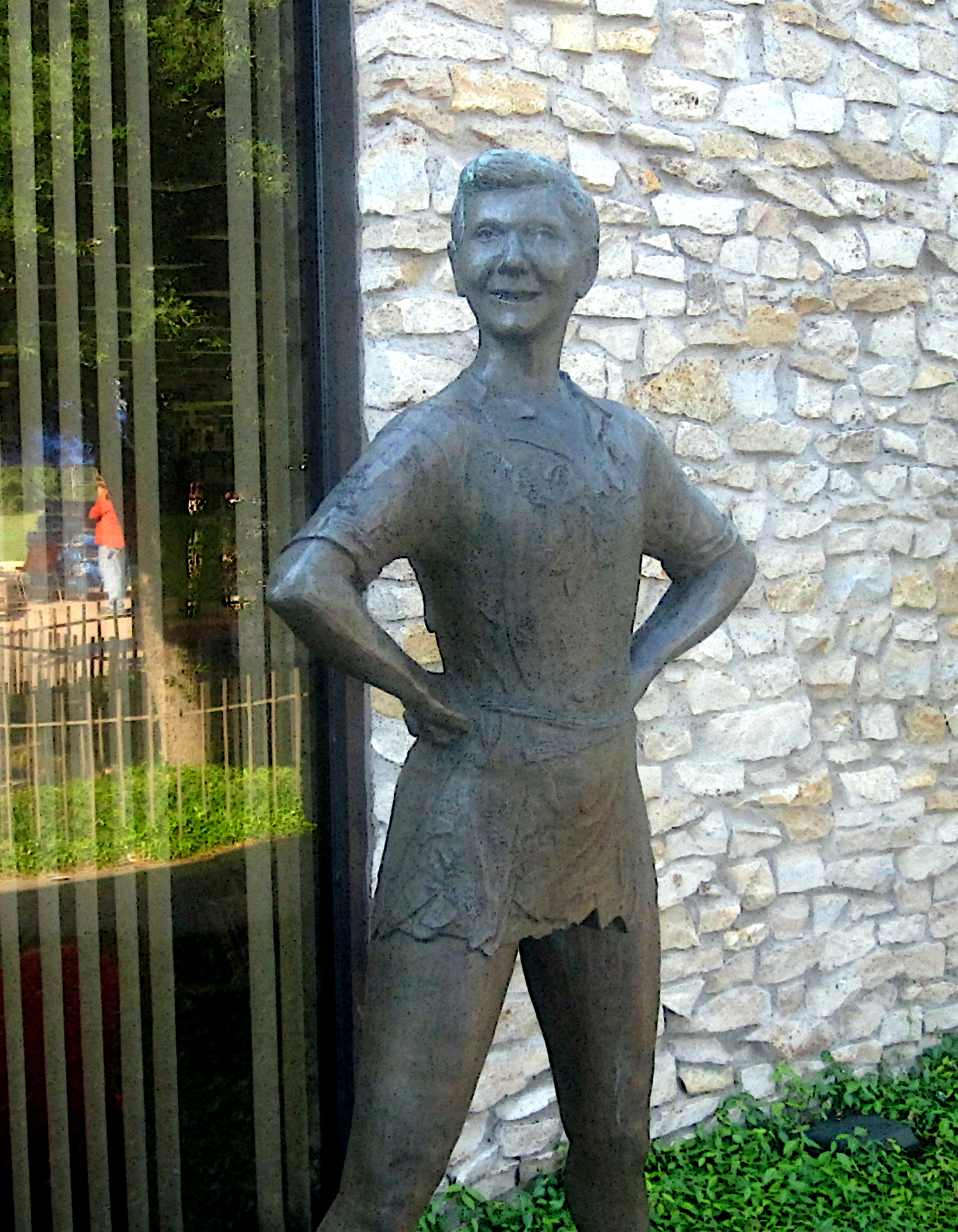 I took photo with Canon camera in Weatherford, TX.